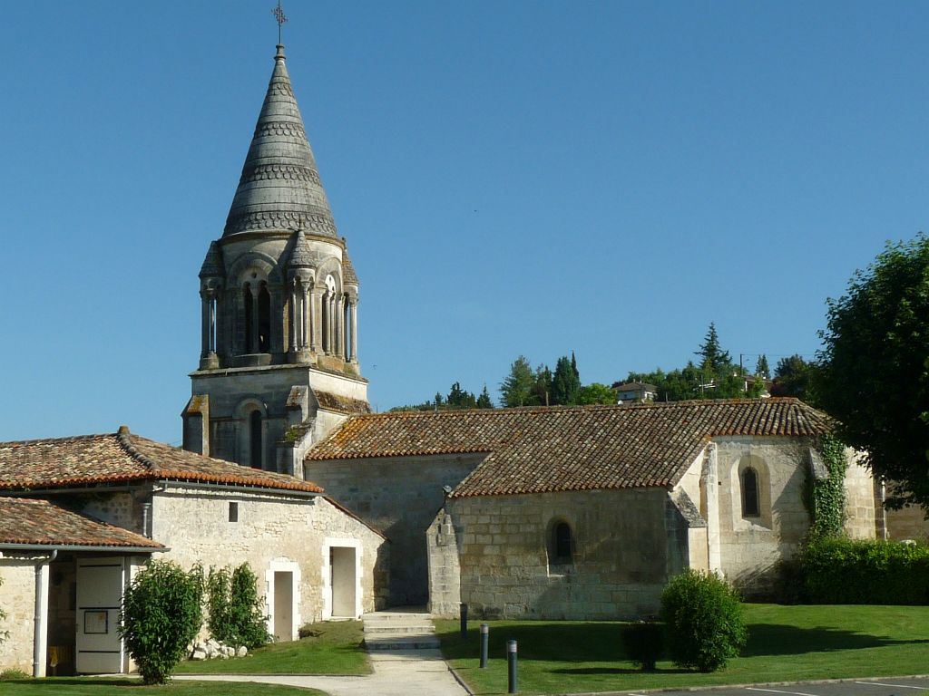 the romanesque church of Voeuil-et-Giget, Charente, France